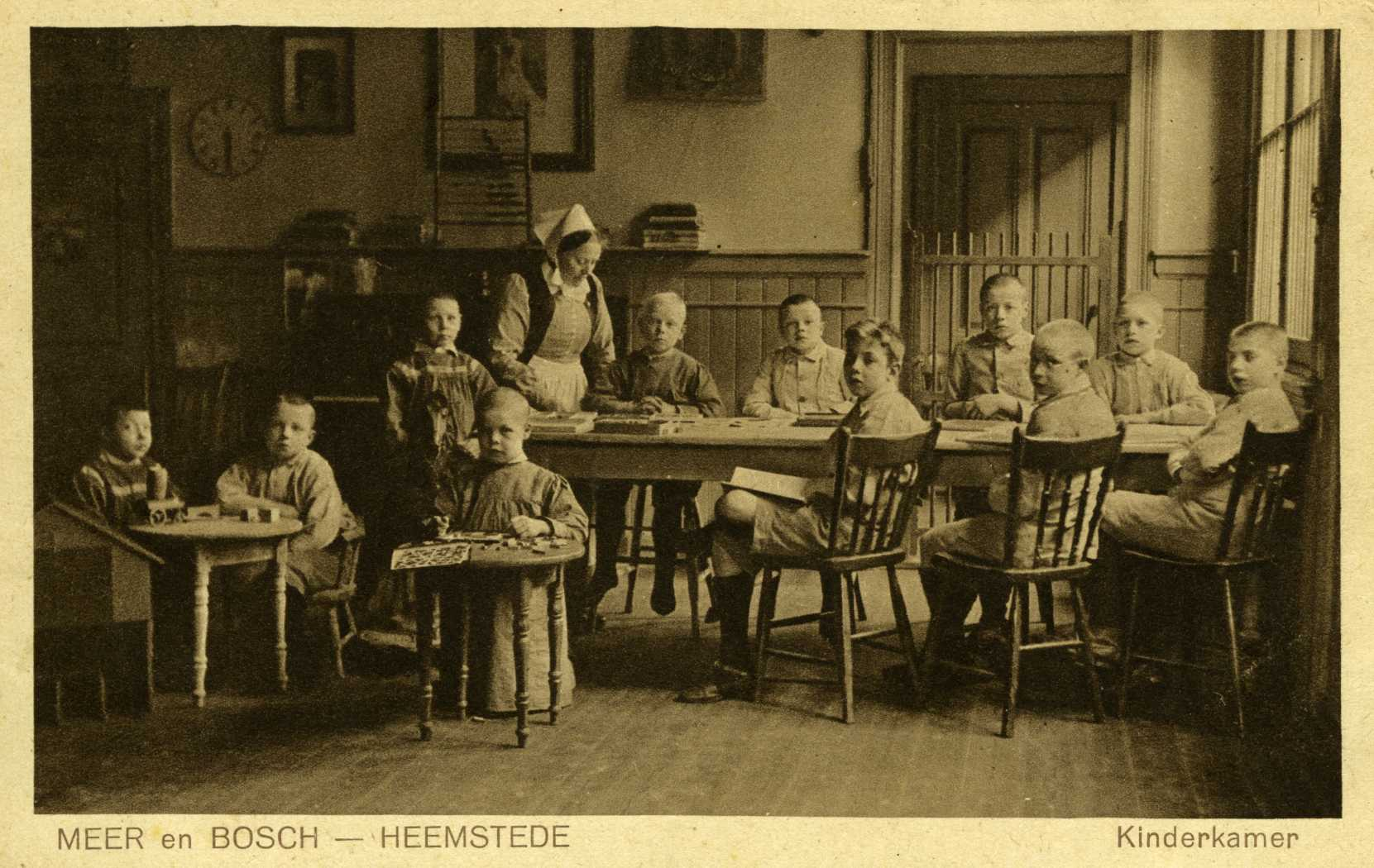 Care for epileptic children in the Netherlands ca. 1910